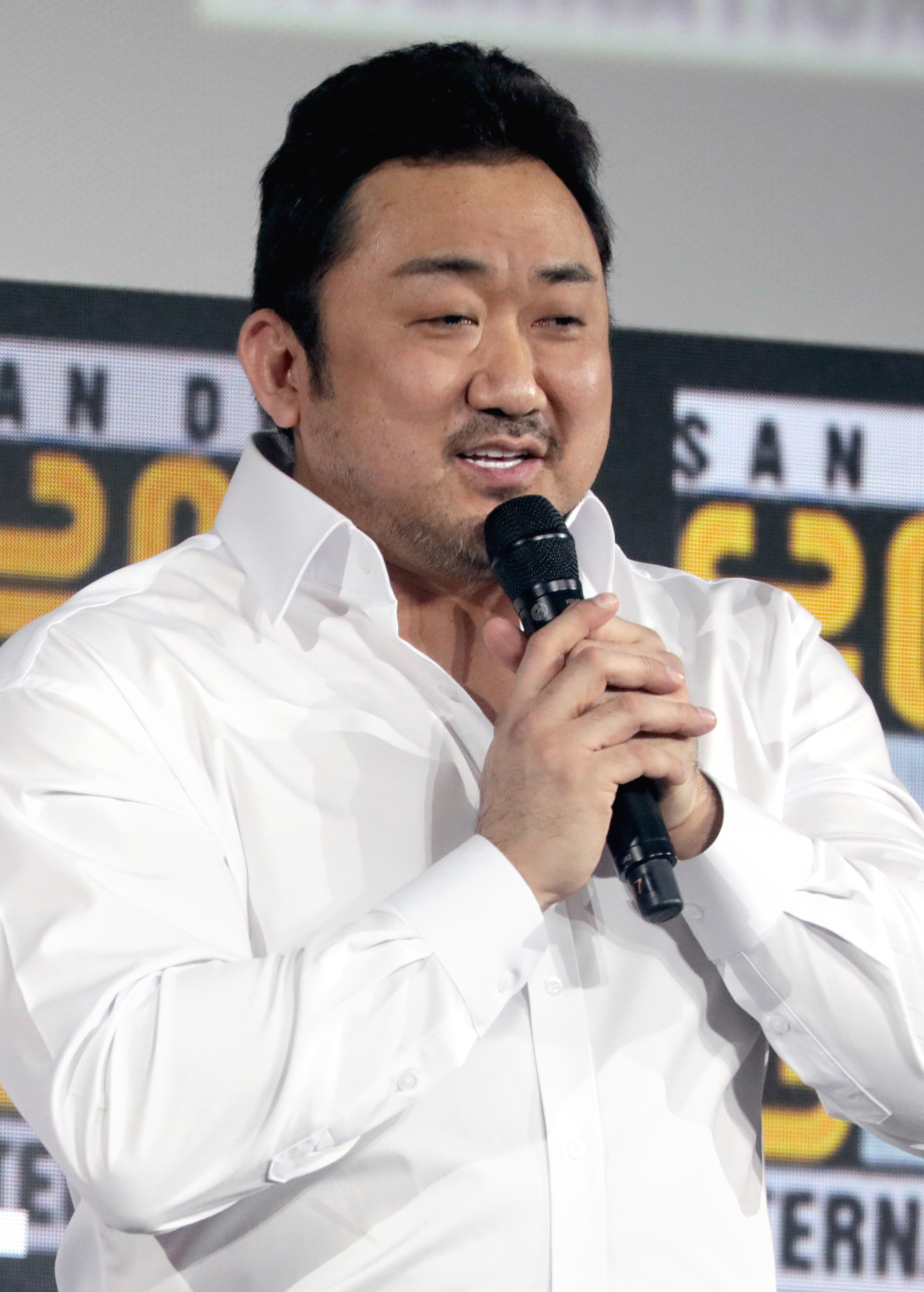 Ma Dong-seok, also known as Don Lee, speaking at the 2019 San Diego Comic-Con International in San Diego, California.